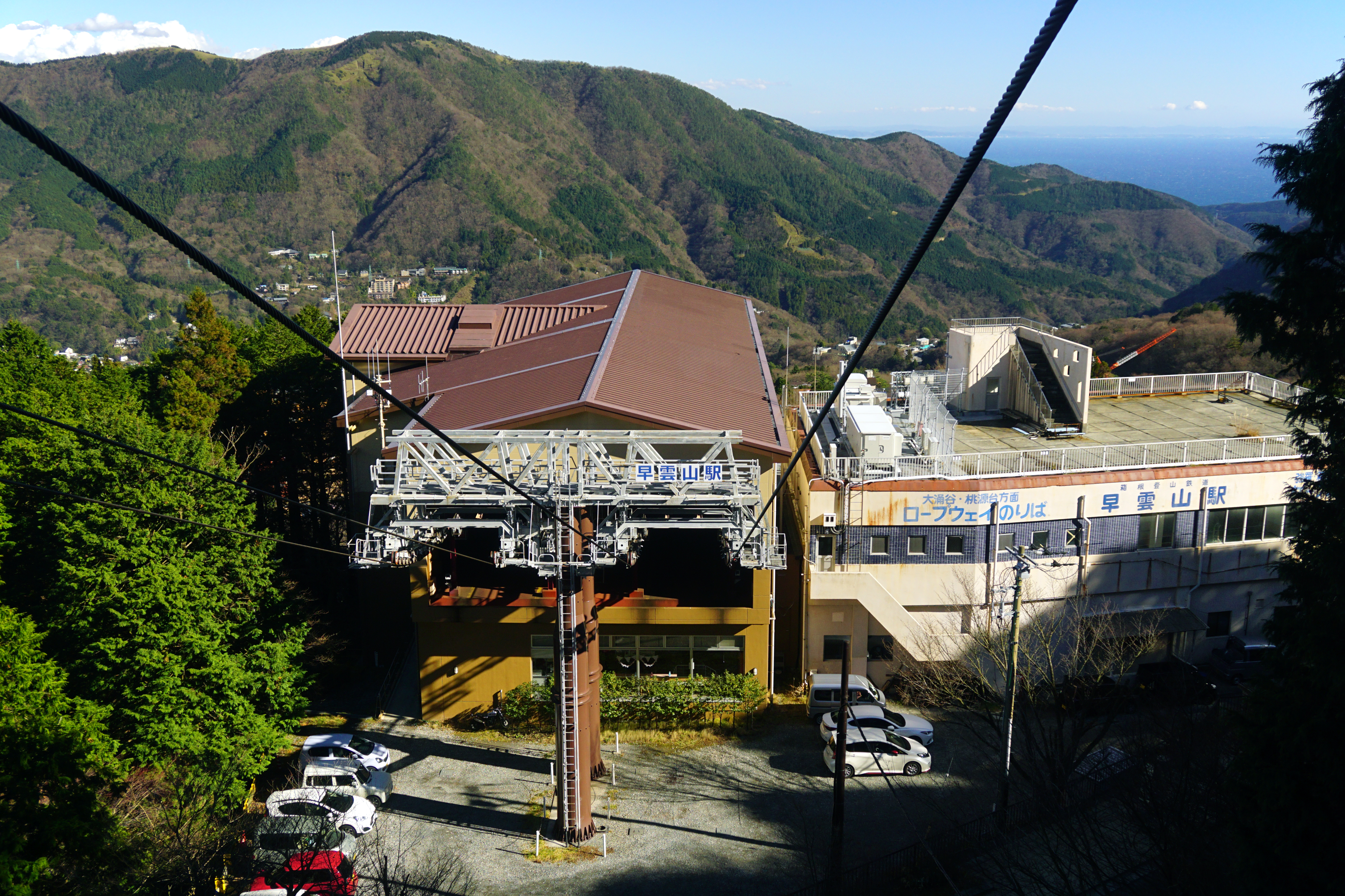 Sōunzan Station in Hakone Kanagawa prefecture, Japan